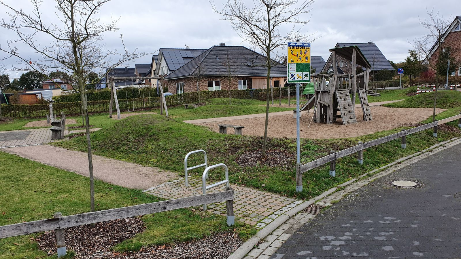 Playground Otter Ohnhorstblick